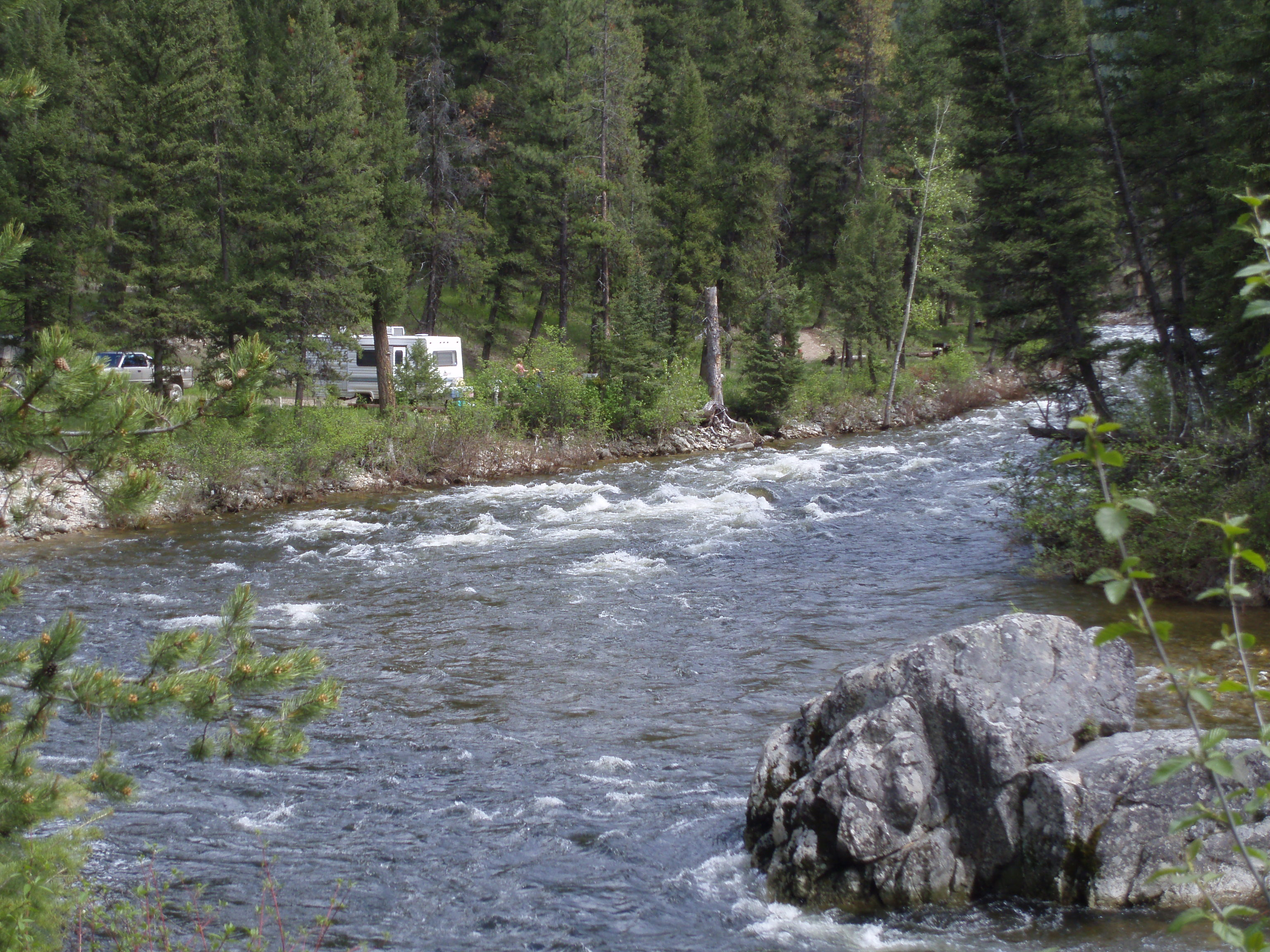 River in Boise National Forest, Idaho